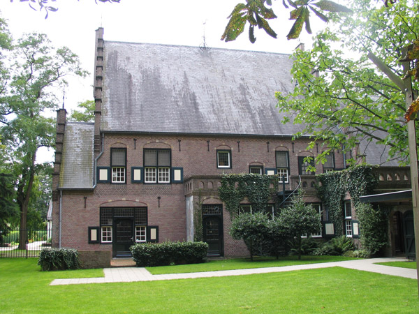 Picture of the backside of the Wieger Museum in Deurne (The Netherlands)